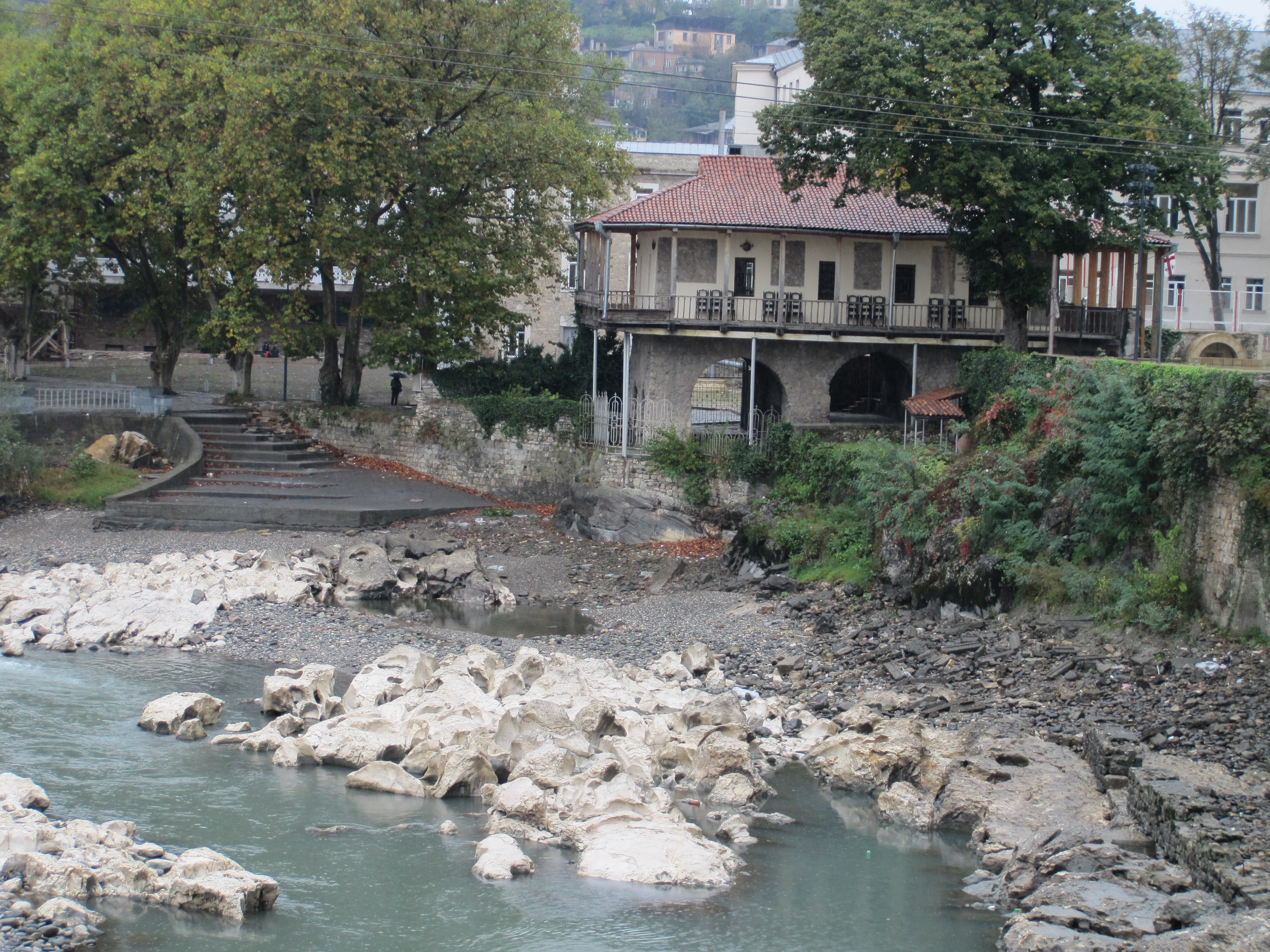 "Okros Chardakhi" (Golden Marquee), the only surviving structure of the 17th-18th-century palace of the kings of Imereti. Kutaisi, Georgia